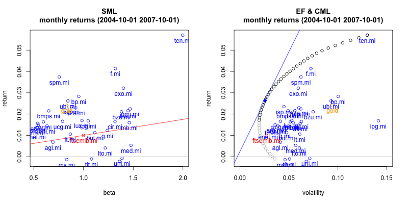 An estimation of the CAPM, Security Market Line and Capital Market Line for the FTSEMIB index between 1-10-2004 and 1-10-2007 for monthly data.